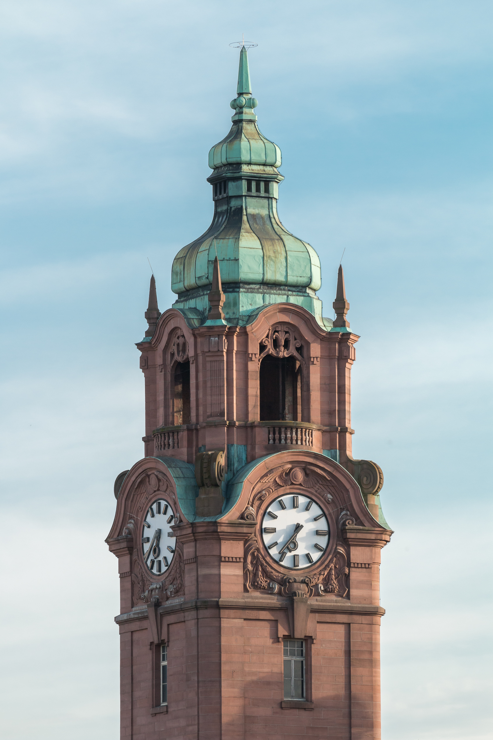 Wiesbaden Hauptbahnhof